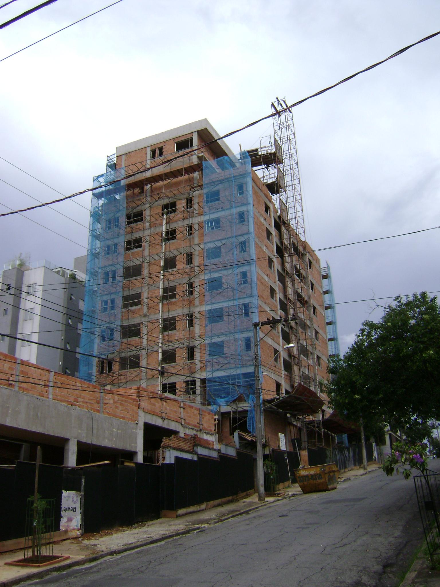 Construção no bairro São Pedro, em Belo Horizonte.